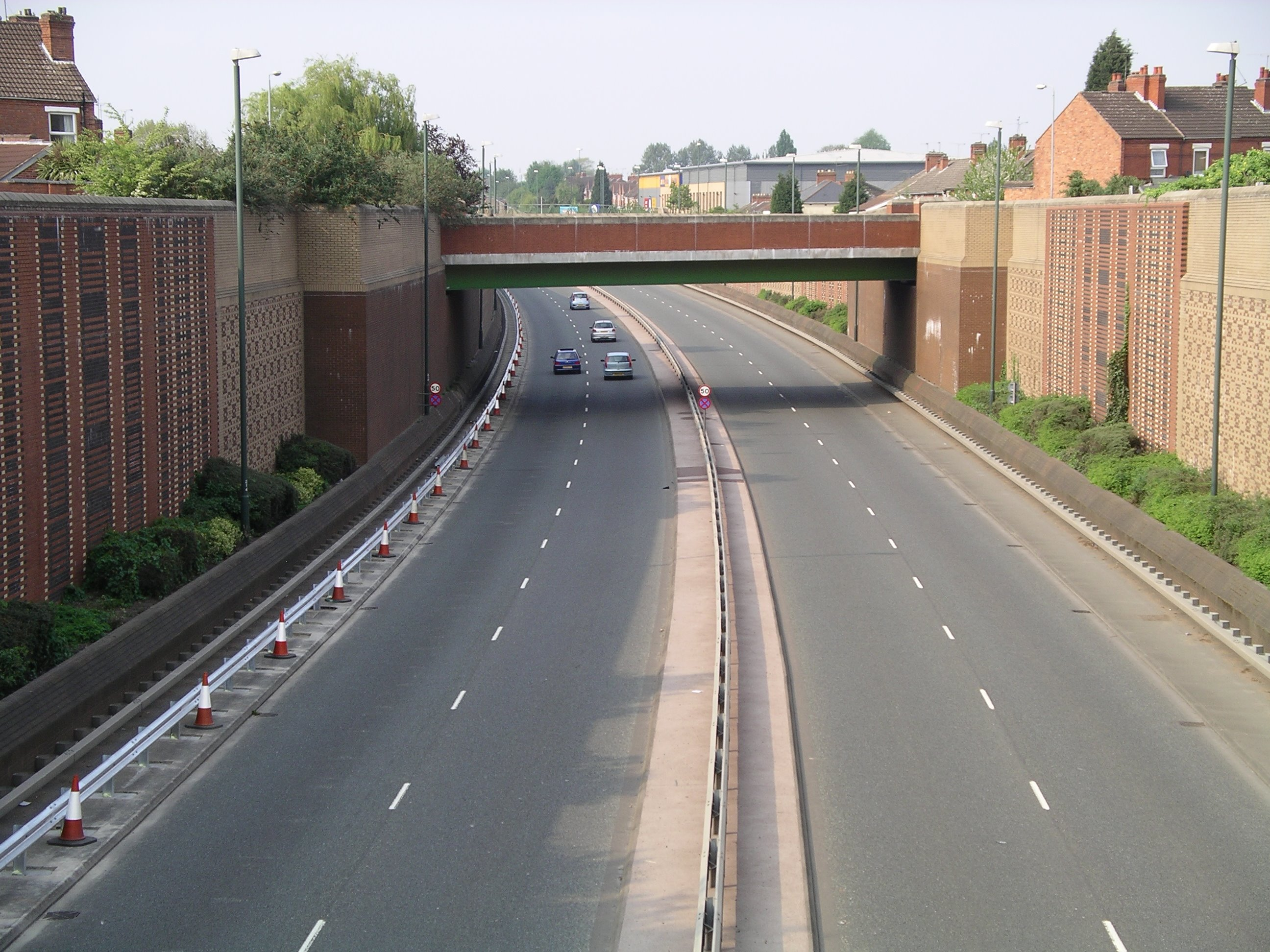 Phoenix Way in Coventry, England. The Bridge shown is the Heath Road bridge.